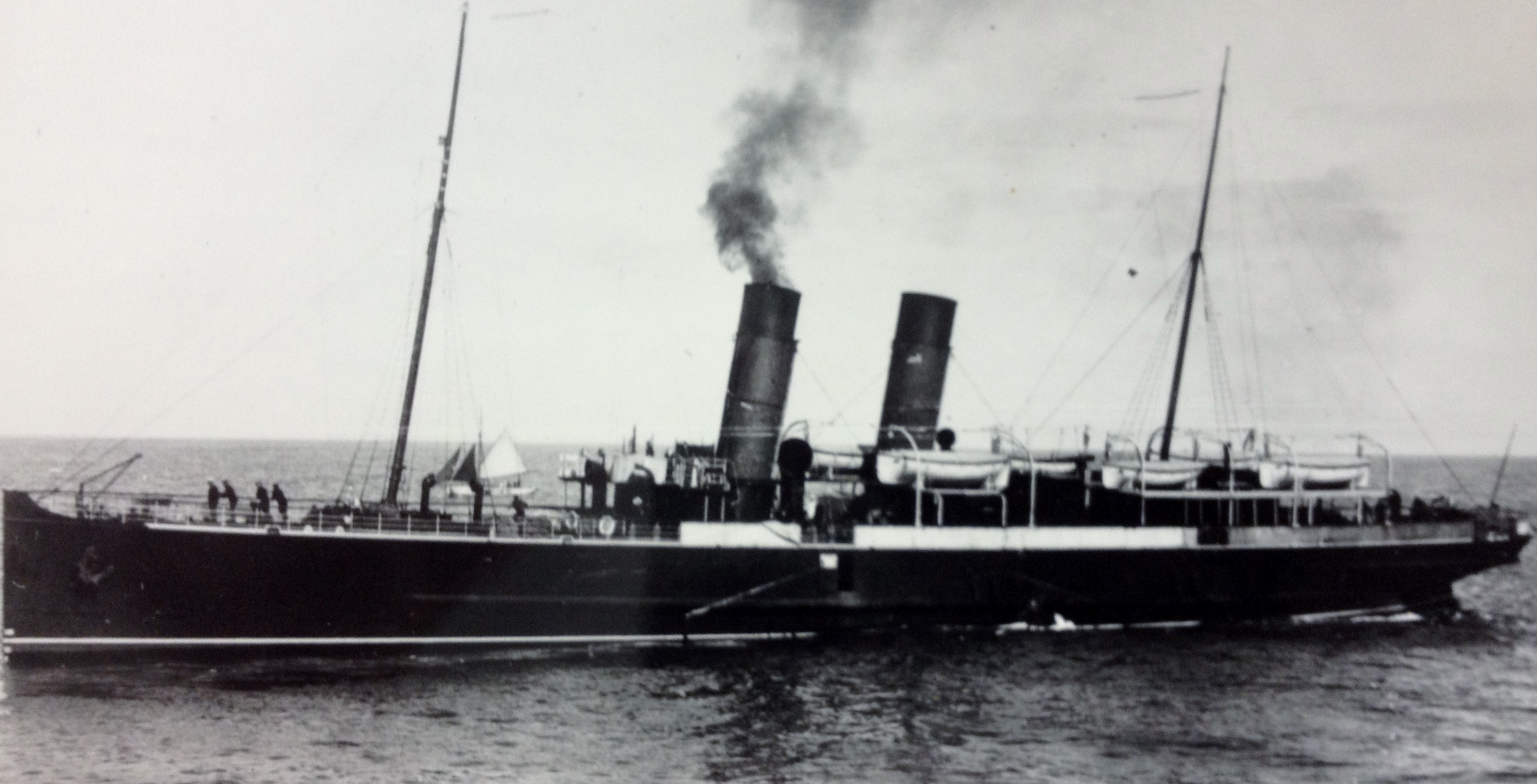 Tynwald in service.